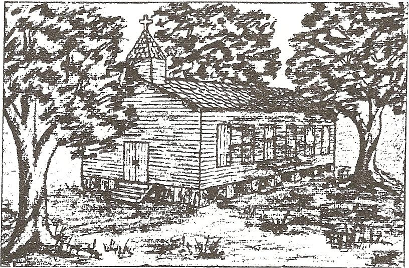 Artwork depicting Ascension of Our Lord Catholic Church, built in Donaldsonville, Louisiana, in 1772